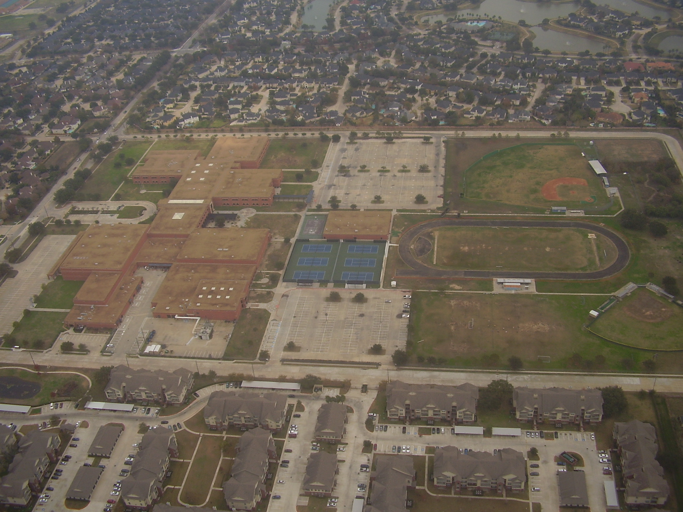 Westside High School, viewed by air